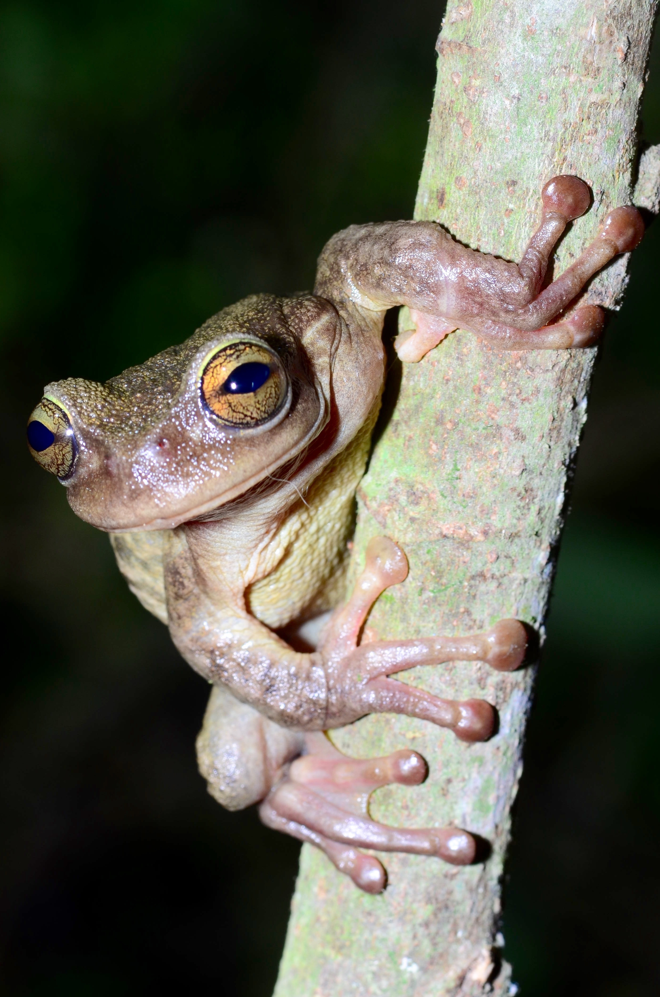 Critically Endangered Treefrog, Plectrohyla teuchestes. Guatemala.